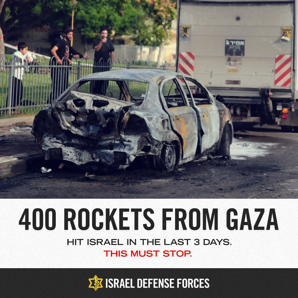 In response to the incessant rocket attacks from the Gaza Strip – more than 700 have struck Israel since the beginning of the year, and more than 120 since Saturday – the IDF has launched a widespread campaign against terror targets in Gaza. The operation, called Pillar of Defense, has two main goals: to protect Israeli civilians and to cripple the terrorist infrastructure in Gaza.